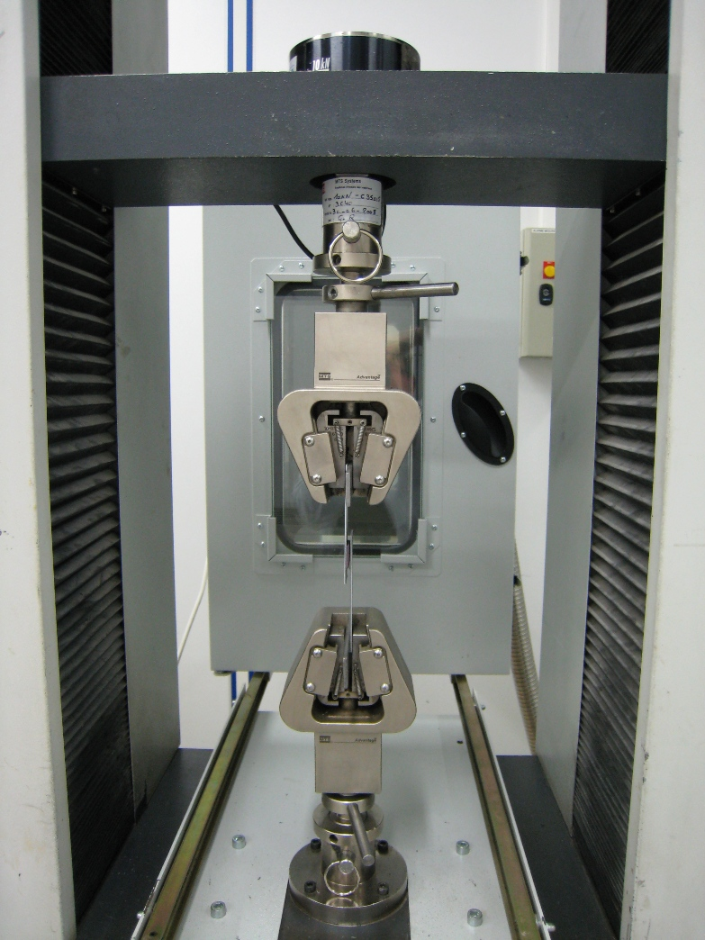 (Tensile-)shear test, using a tensometer equipped with a 10 kN load cell attached to a dynamometer, of an adhesive joint (purple) between two steel plates. Fixing of plates is achieved through wedge action jaws. The strength vs crosshead displacement curve is recorded. A thermostated enclosure, visible in the background, is used for testing at different temperatures.